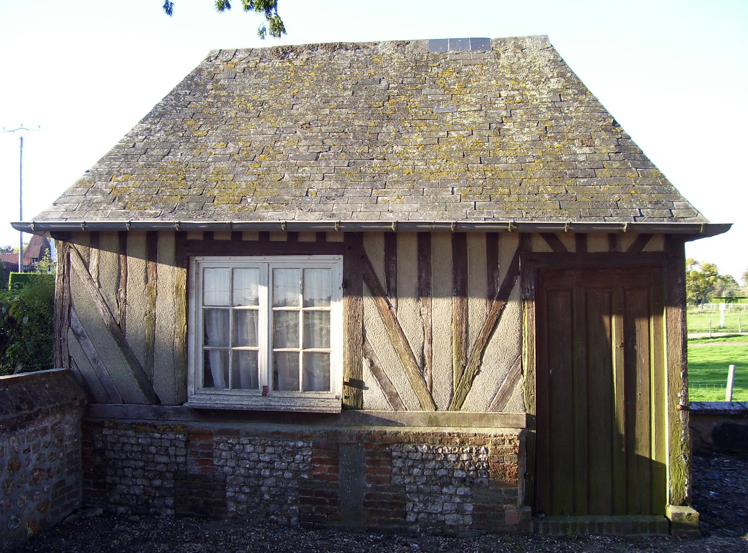 Building of the brotherhood of charity in Bazoques (Eure, Haute-Normandie) in France. Built in the first half of the 19th century.